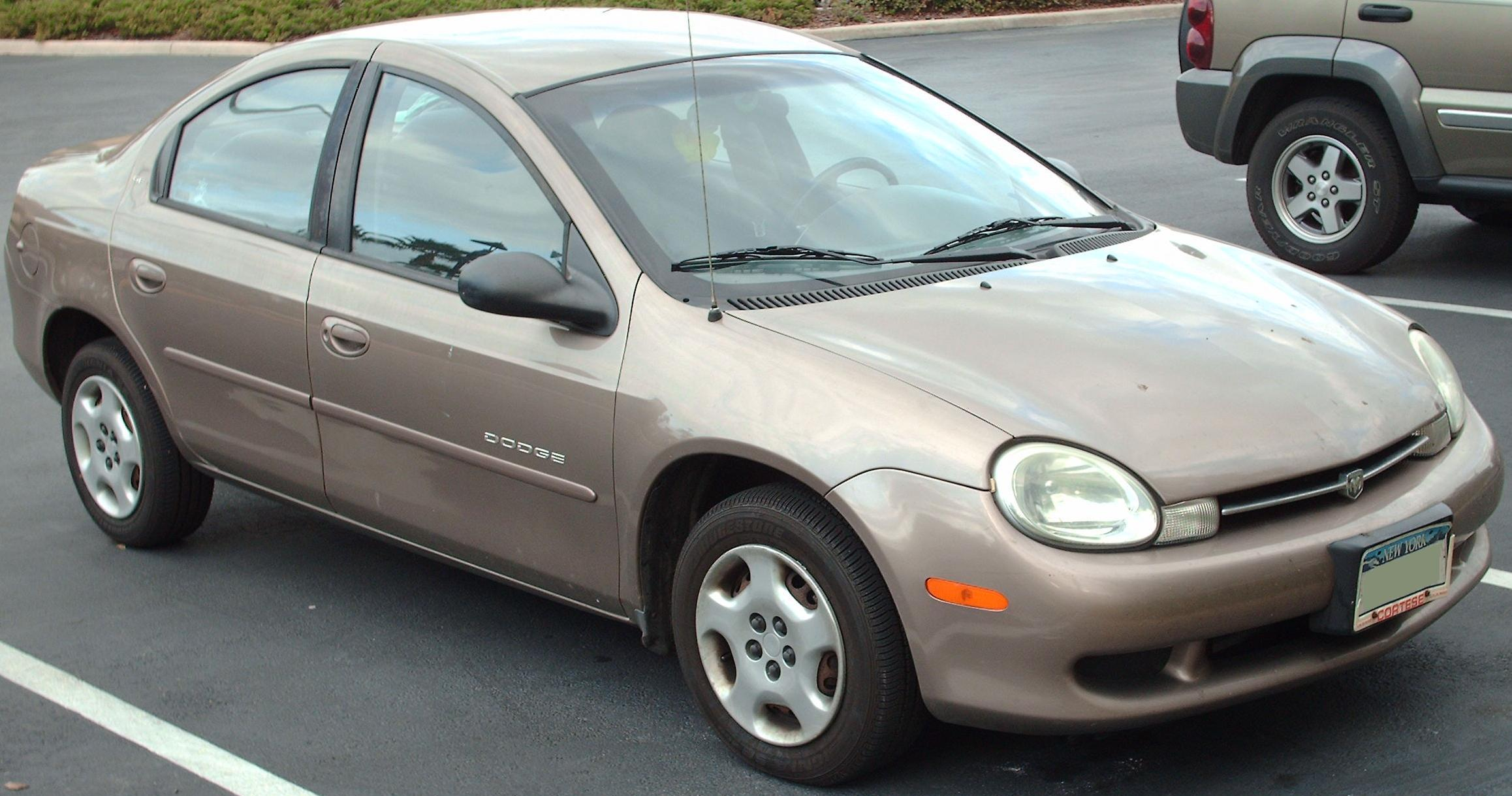 2000-2001 Dodge Neon photographed in Orlando, Florida, USA.